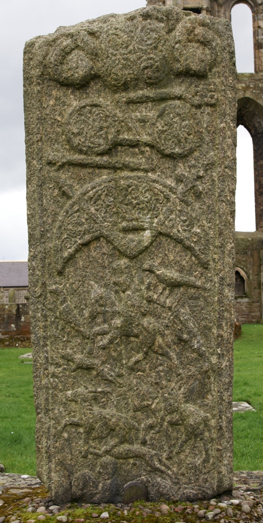 Elgin Cathedral (Scotland) - pictish stone